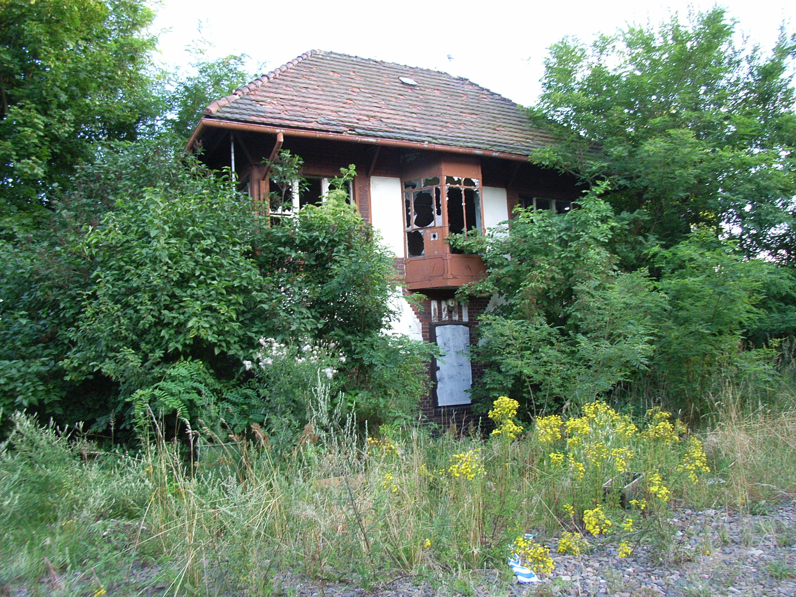 old interlocking block "Snwt" (Schlauroth north-western tower) in Schlauroth, Görlitz, Saxony